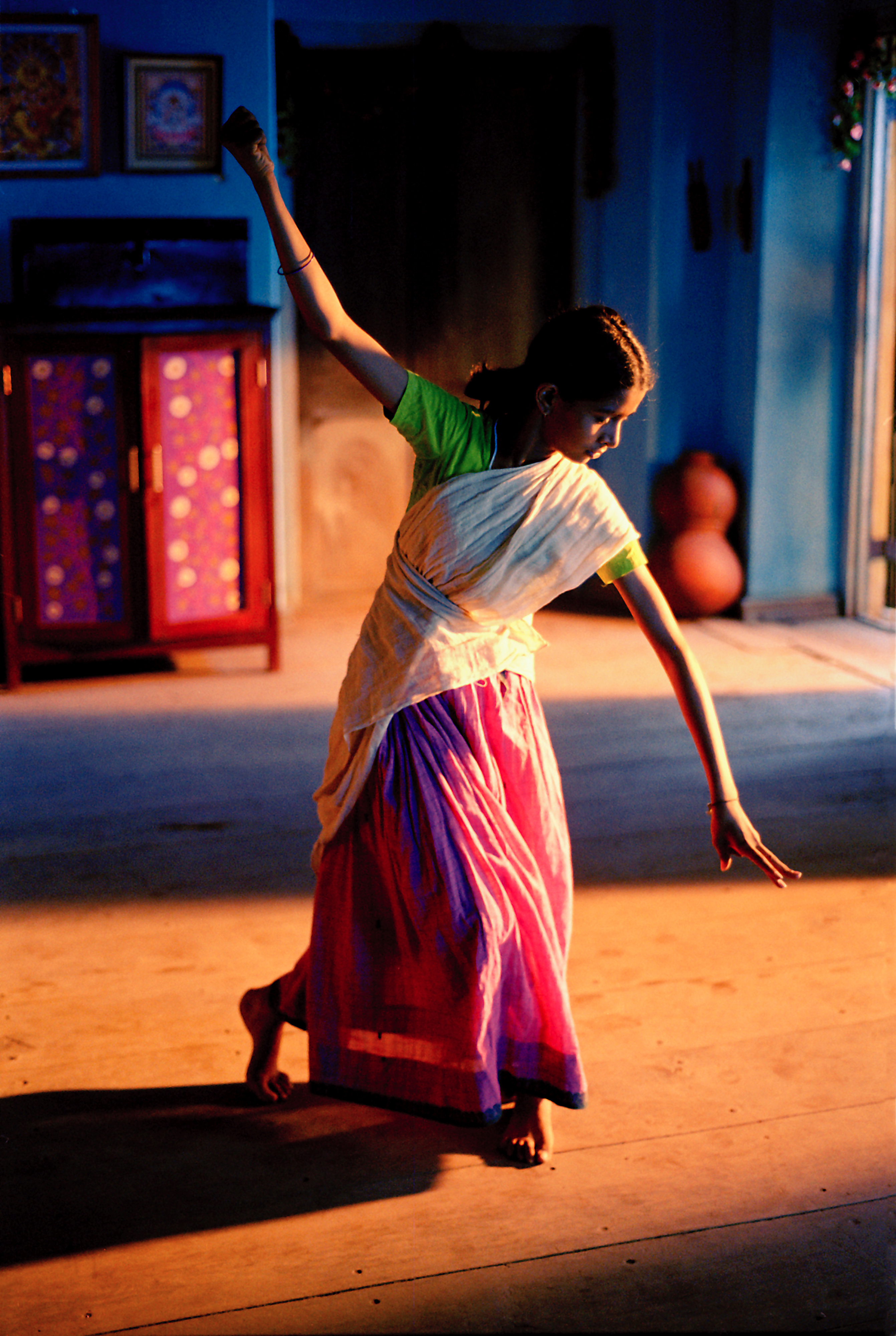 Vanaja, played by Mamatha Bhukya, invokes Goddess Durga during a Kuchipudi dance item called “Igiri Nandini”. In the dance, she narrates how the Gods combined powers to create Goddess Durga in order to kill the demon Mahishasura. This item appears close to the end of the 2006 Telugu language feature film called Vanaja, written, directed and edited by Rajnesh Domalpalli for his MFA thesis at Columbia University.